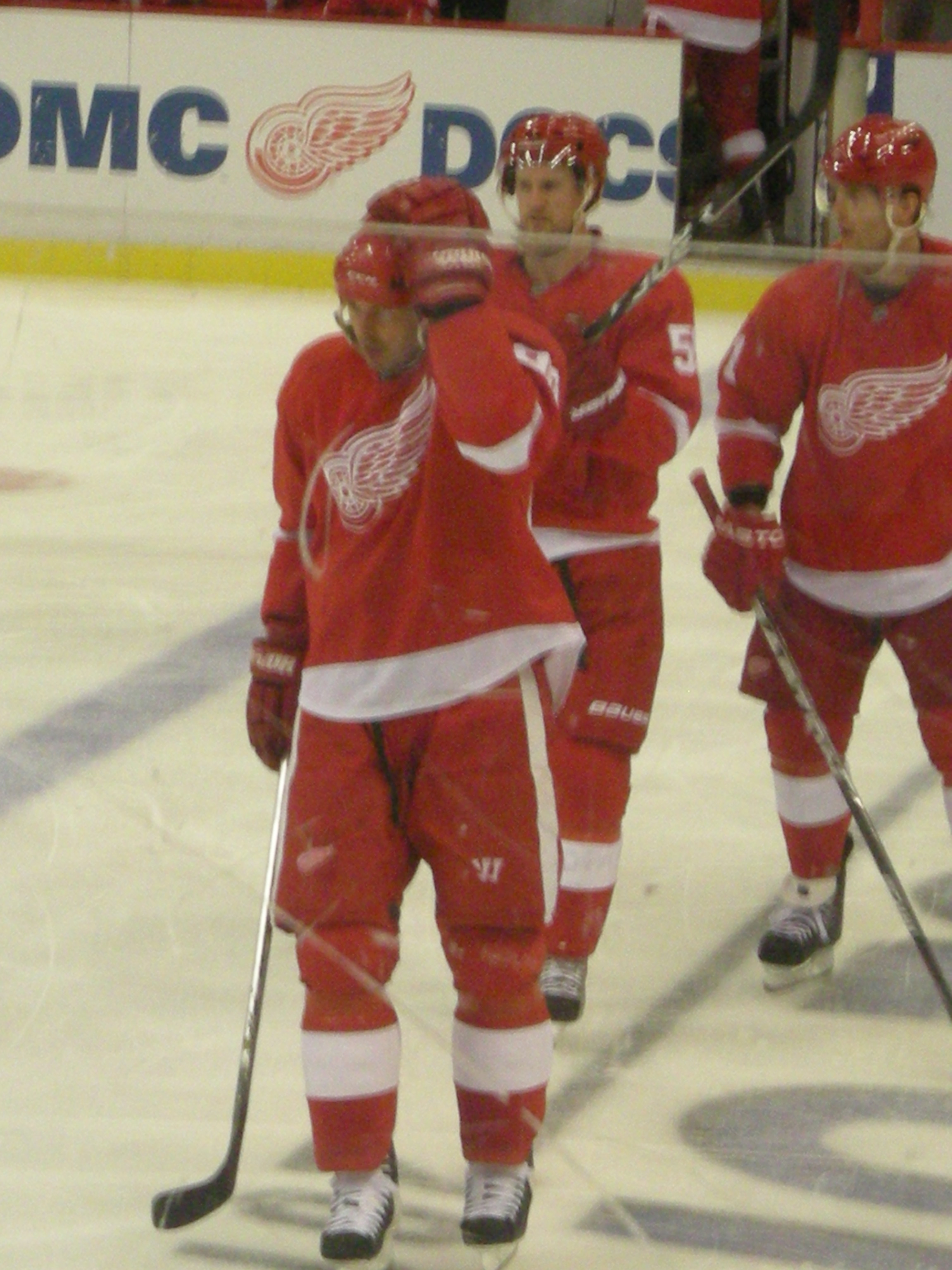 Detroit players during the Anaheim Ducks vs. Detroit Red Wings ice hockey game at Joe Louis Arena in Detroit, Michigan (United States). Detroit won 4–0.